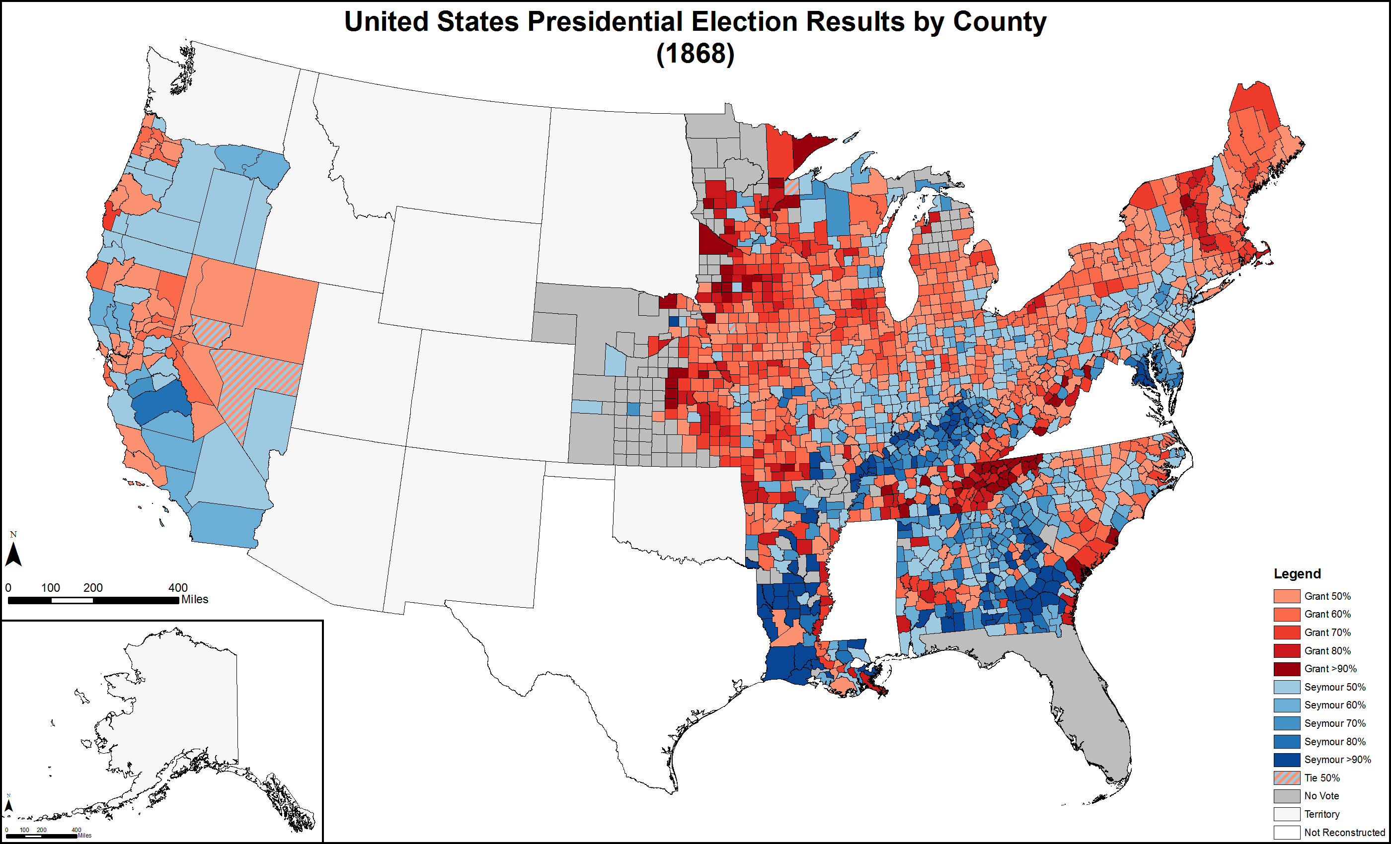 Presidential election results by county (1868). Colors based on Colorbrewer 2.0.